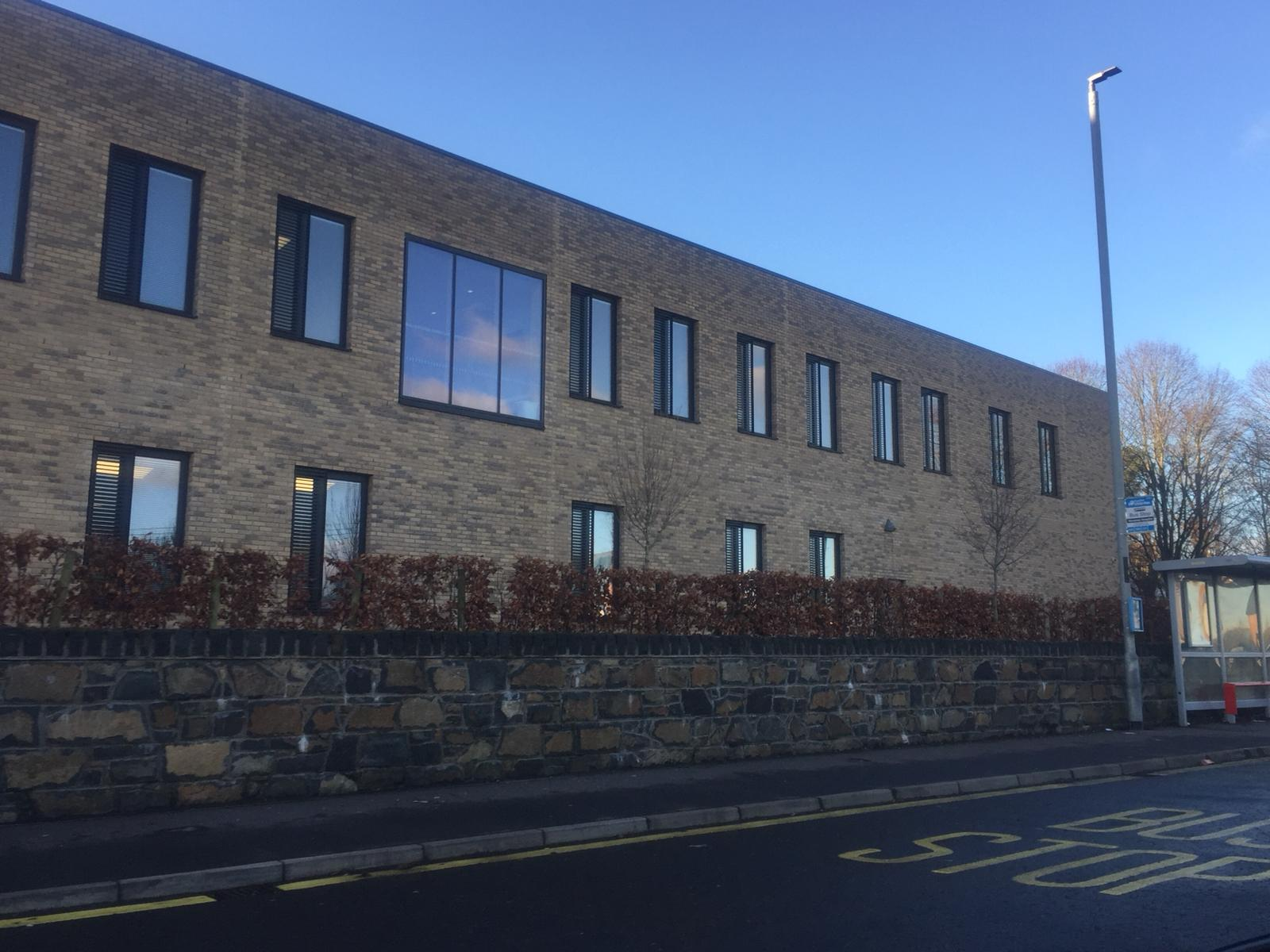 Braid Valley hospital building